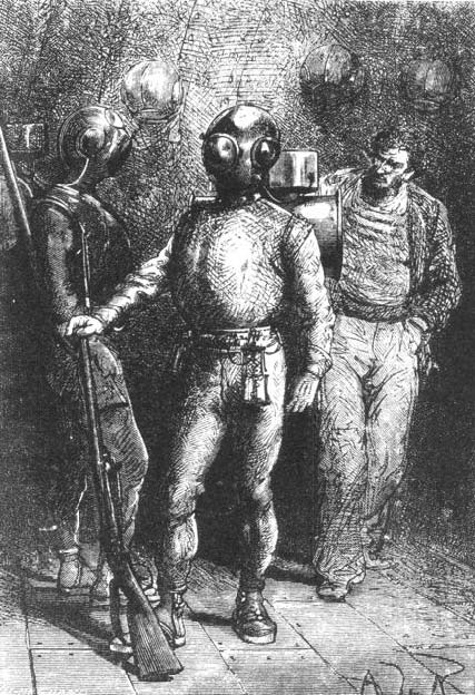 An illustration from Jules Verne's novel "Twenty Thousand Leagues Under the Sea" (1866-69) drawn by George Roux. Captain Nemo holding an air-powered Leyden rifle, being observed by Ned.